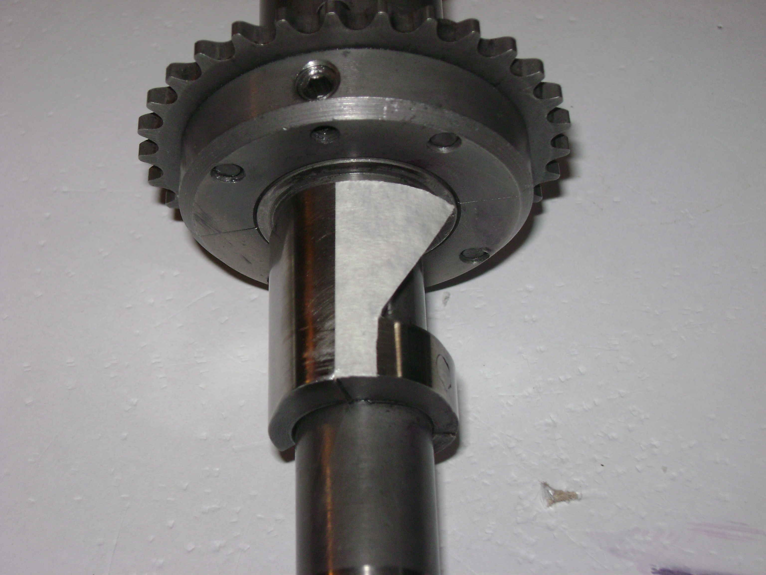 Suzuki GSX 250 helical camshaft. Area of constant nose radius is marked by white masking tape.